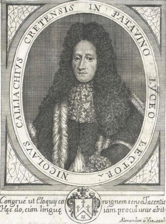 Engraved portrait of Nicholas Kalliakis (Greek: Νικόλαος Καλλιάκης, Nikolaos Kalliakis) (Nicolai Calliachius), (c. 1645 - May 8, 1707) was a Greek scholar and philosopher who flourished in Italy in the 17th century. He was appointed doctor of philosophy and theology in Rome, university professor of Greek and Latin and Aristotelian philosophy at Venice in 1666 and professor of belles-lettres and rhetoric at Padua in 1667.